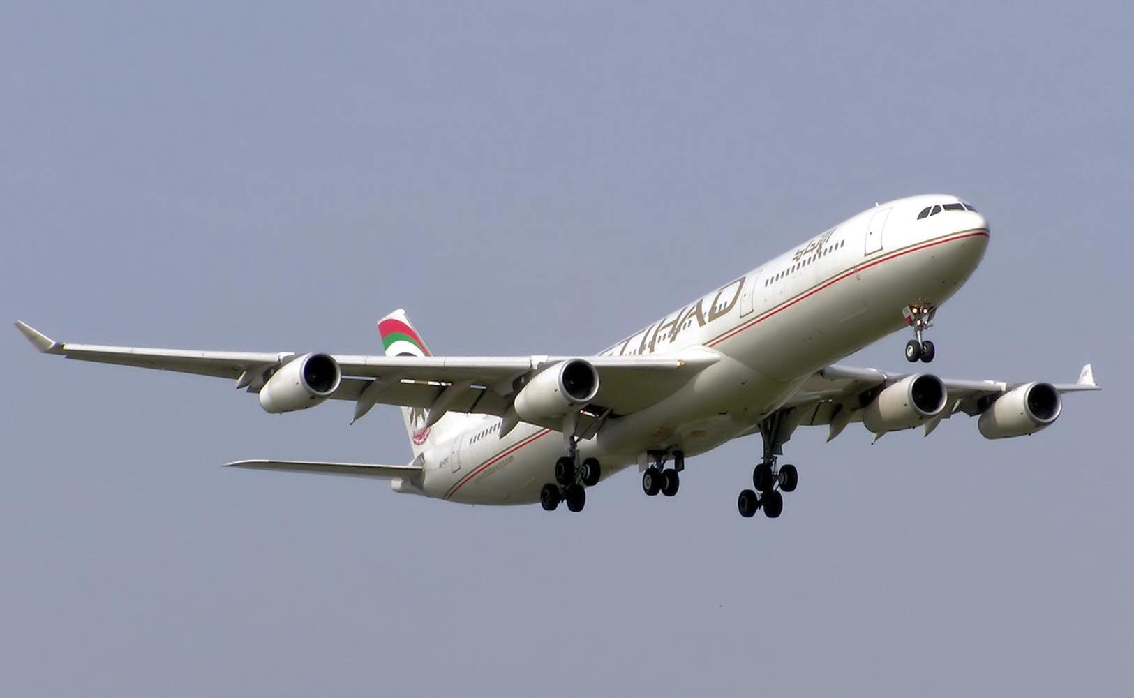 Etihad Airways Airbus A340-300 landing at London Heathrow Airport, England. Photographed by Adrian Pingstone in September 2005 and released to the public domain.